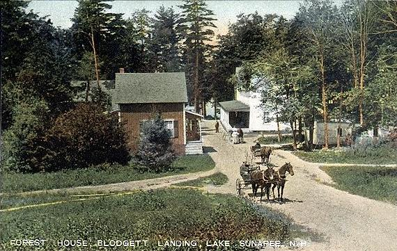 Forest House, Blodgett's Landing, Newbury, NH; from a 1907 postcard.